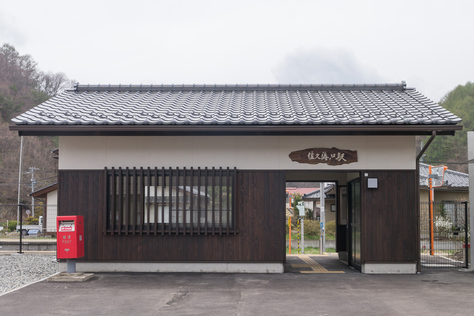 JR East Koumi Line Saku-Uminokuchi Station